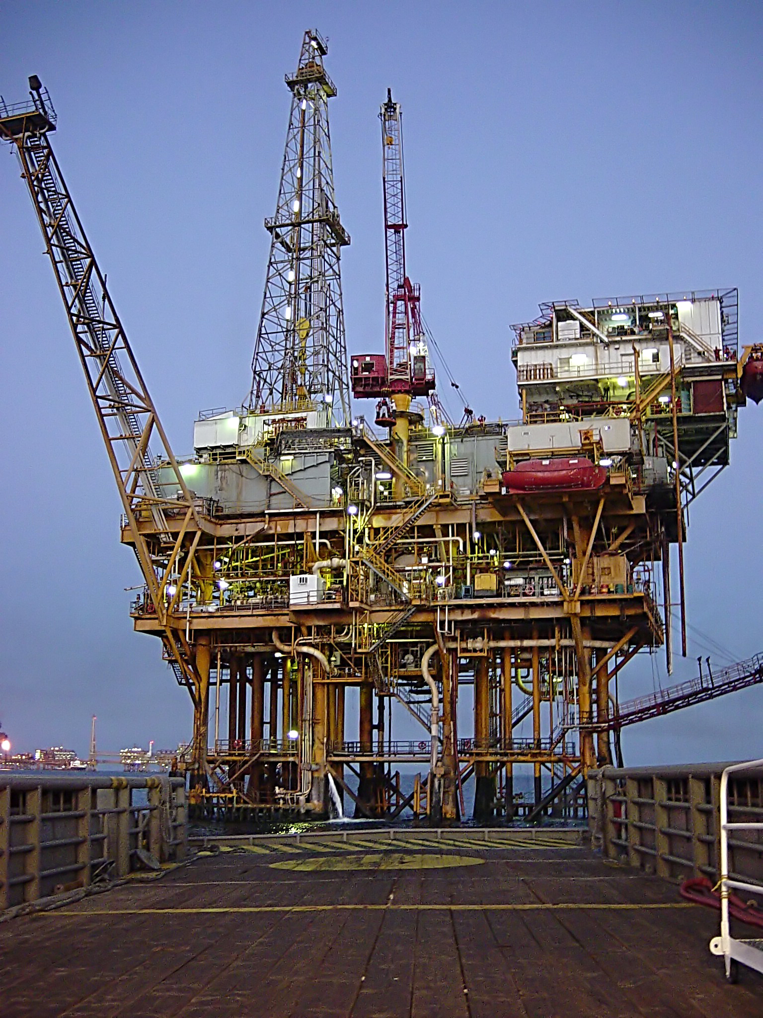 Offshore platform located in the Gulf of Mexico, port location Cd. Del Carmen.